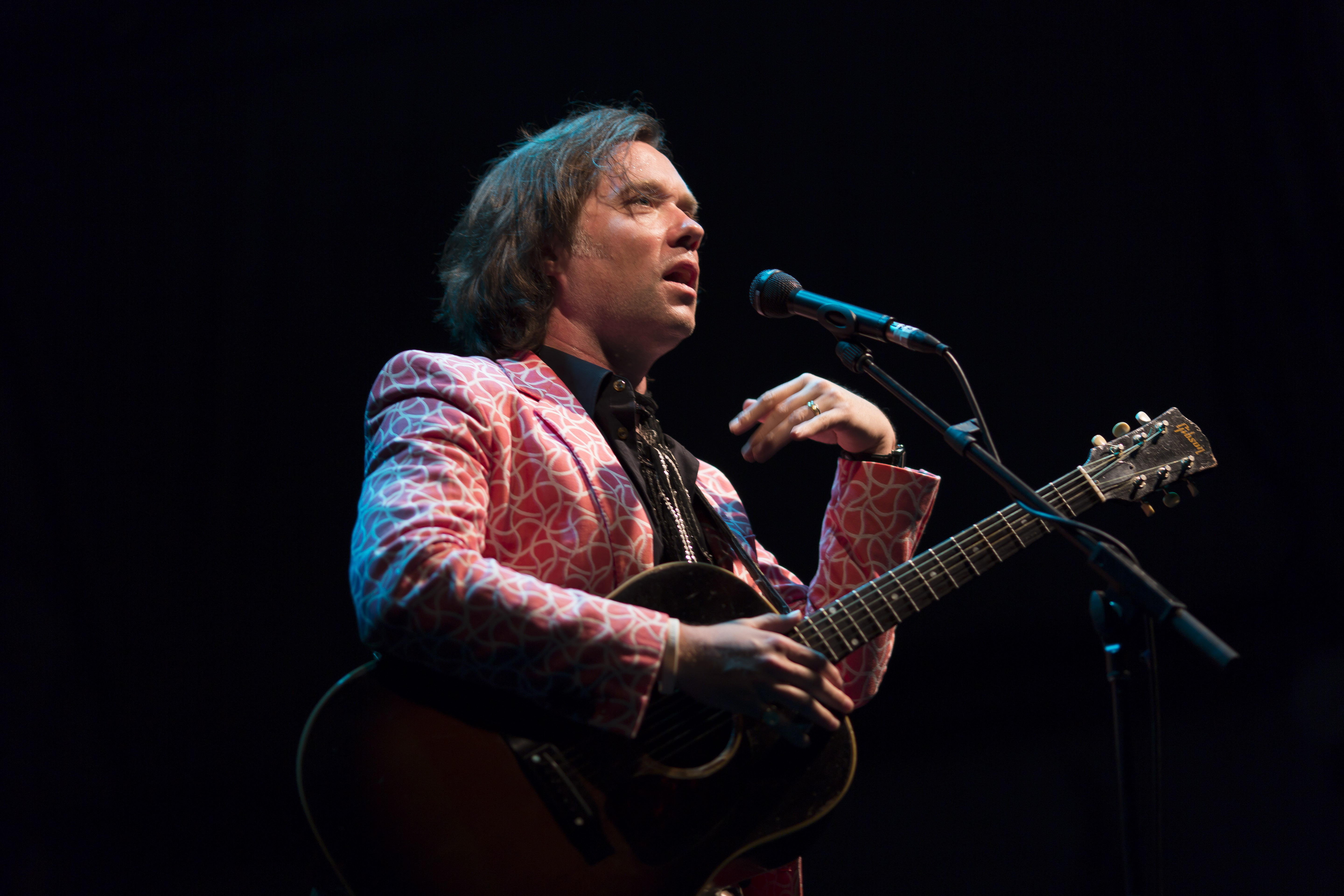 Rufus Wainwright @ Taronga Zoo - 7th March 2015